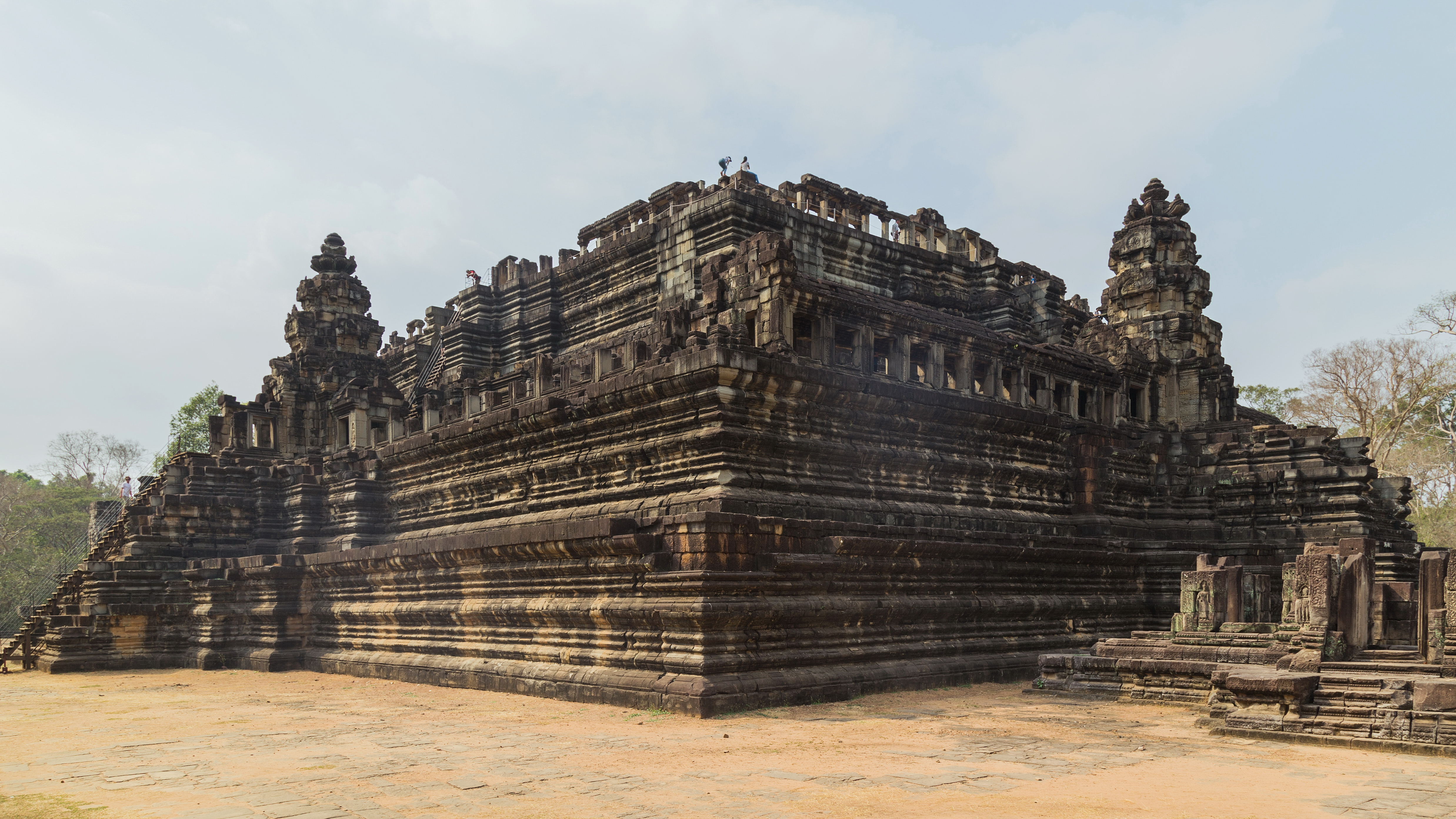 Baphuon. Angkor Thom, Siem Reap Province, Cambodia.